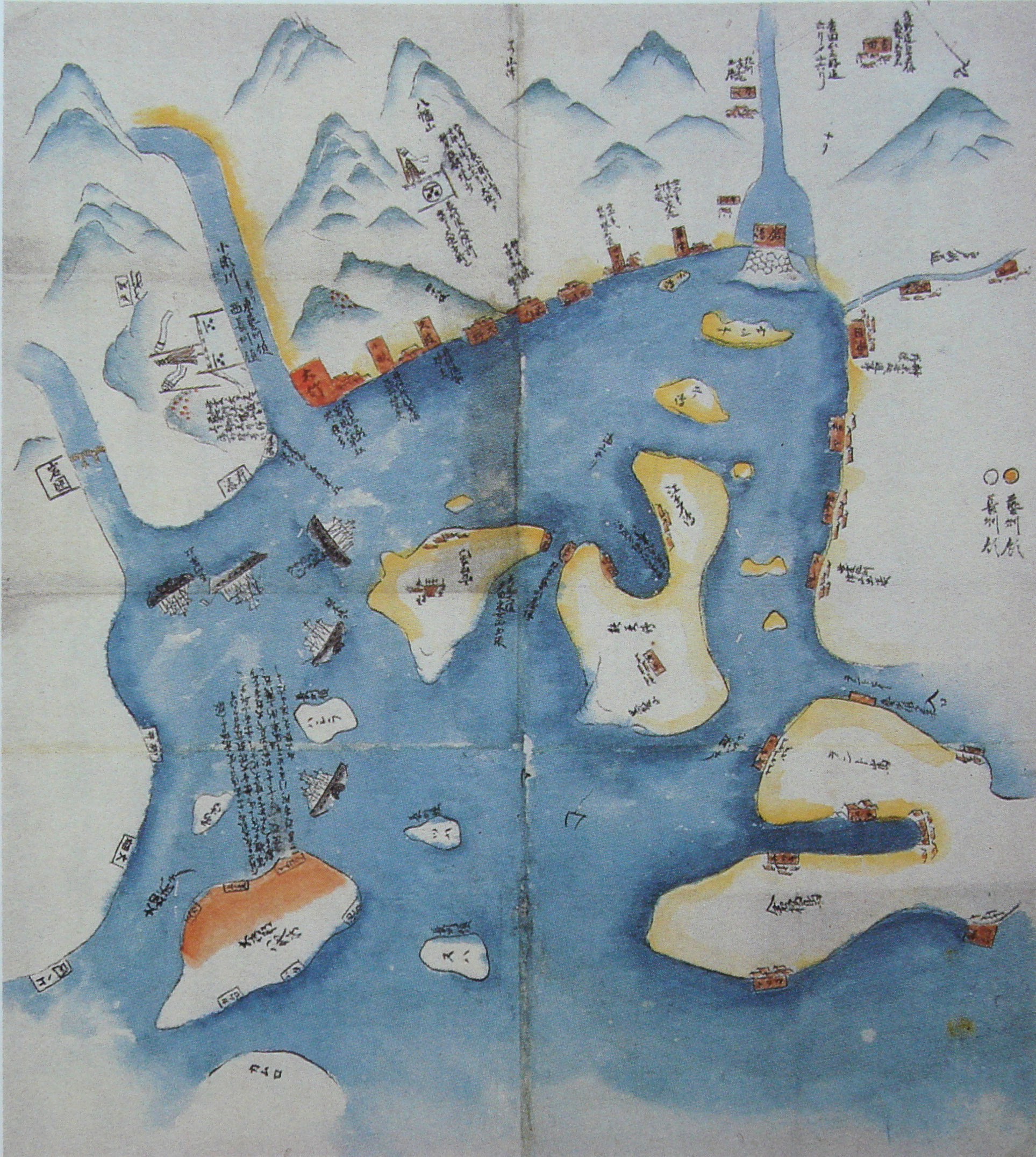 Operations_map_of_the_Second_Choshu_Expedition_by_Sakamoto_Ryoma